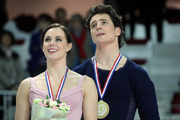 Tessa Virtue and Scott Moir at the 2016 Grand Prix Final